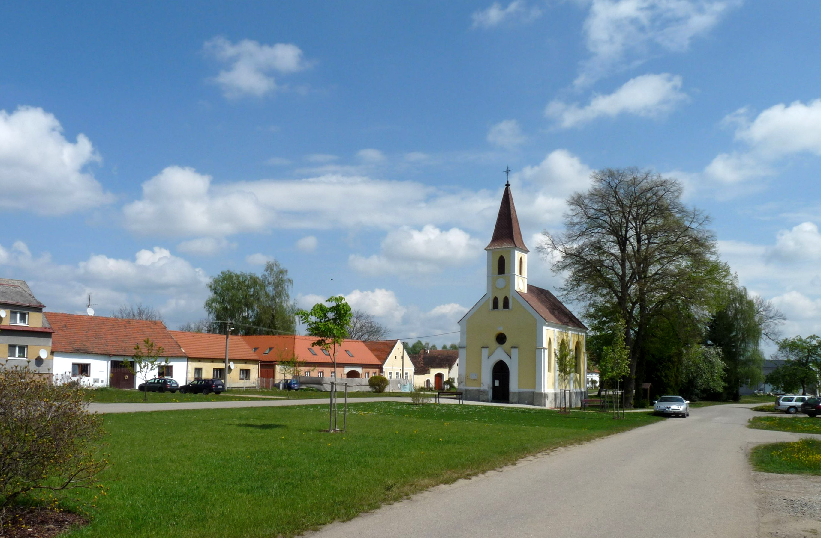 Village green in the municipality of Planá, České Budějovice, South Bohemian Region, Czech Republic.